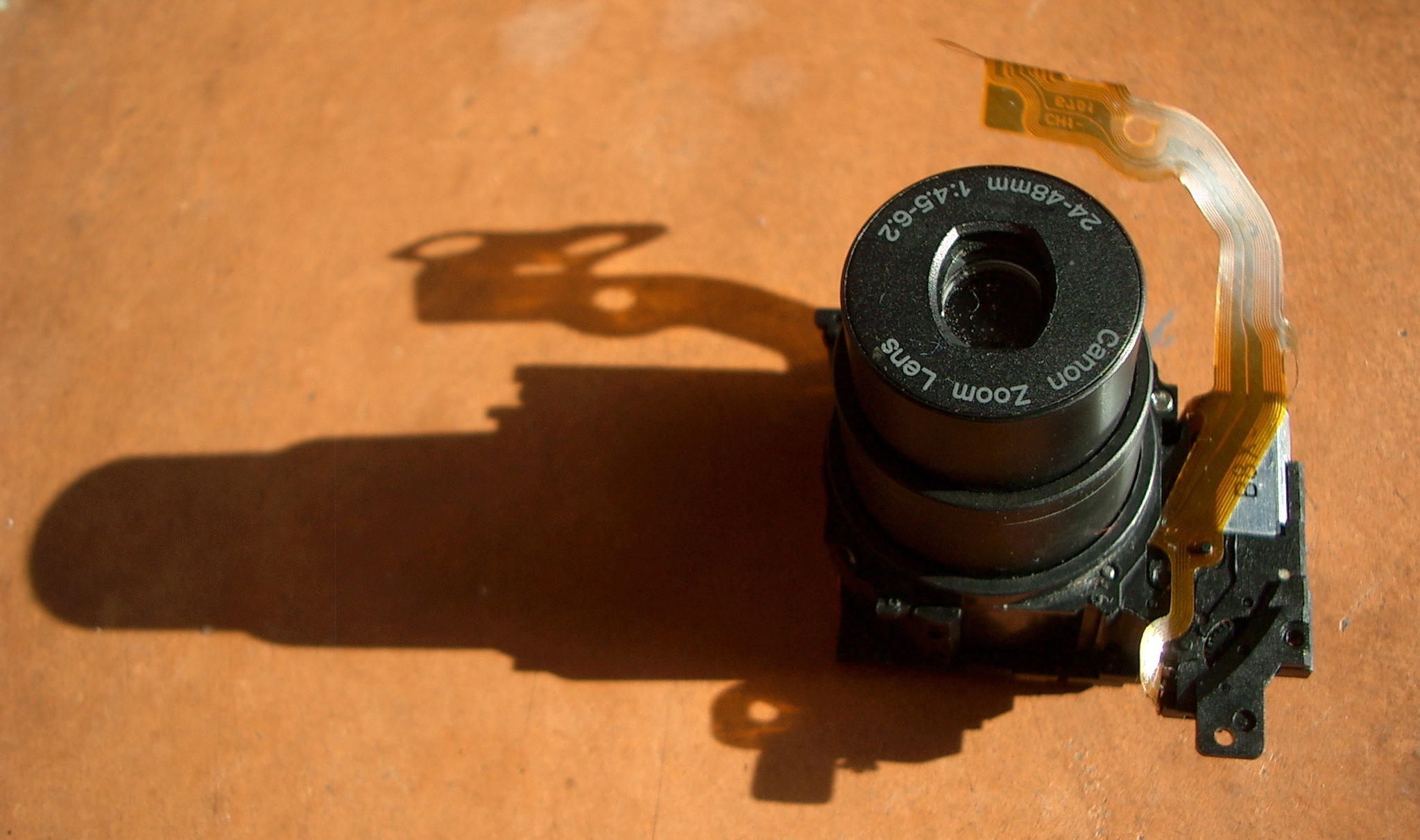 Telephoto: The core of the Canon Elph. The subject of Puzzle 21.